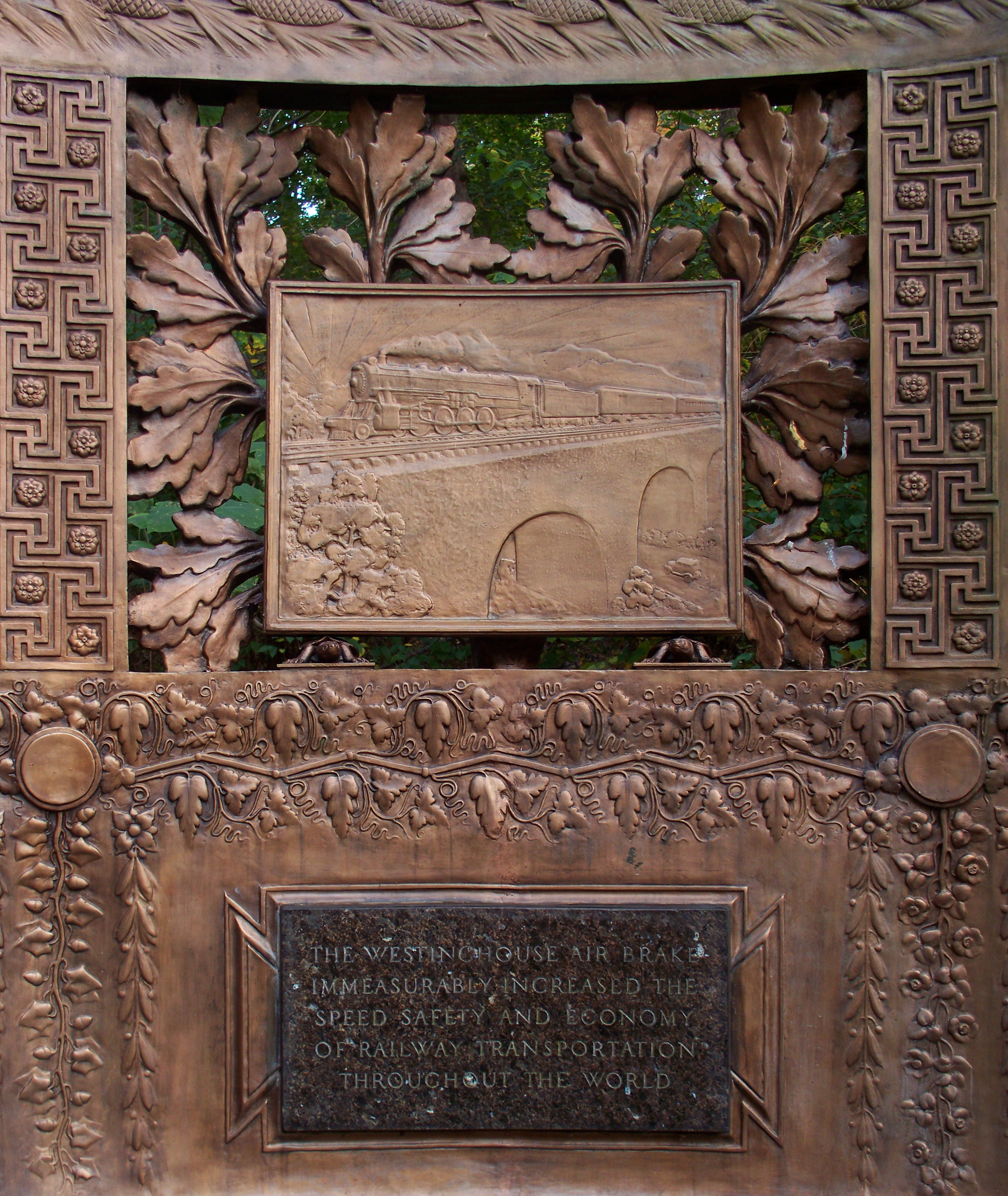 One of the reliefs illustrating George Westinghouse’s innovation on the George Westinghouse Memorial in Schenley Park, Pittsburgh: Paul Fjelde, sculptor